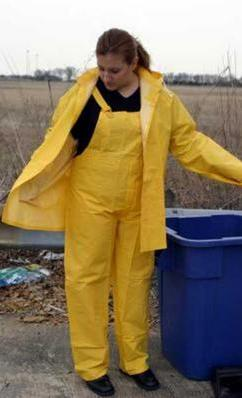 Yellow raincoat